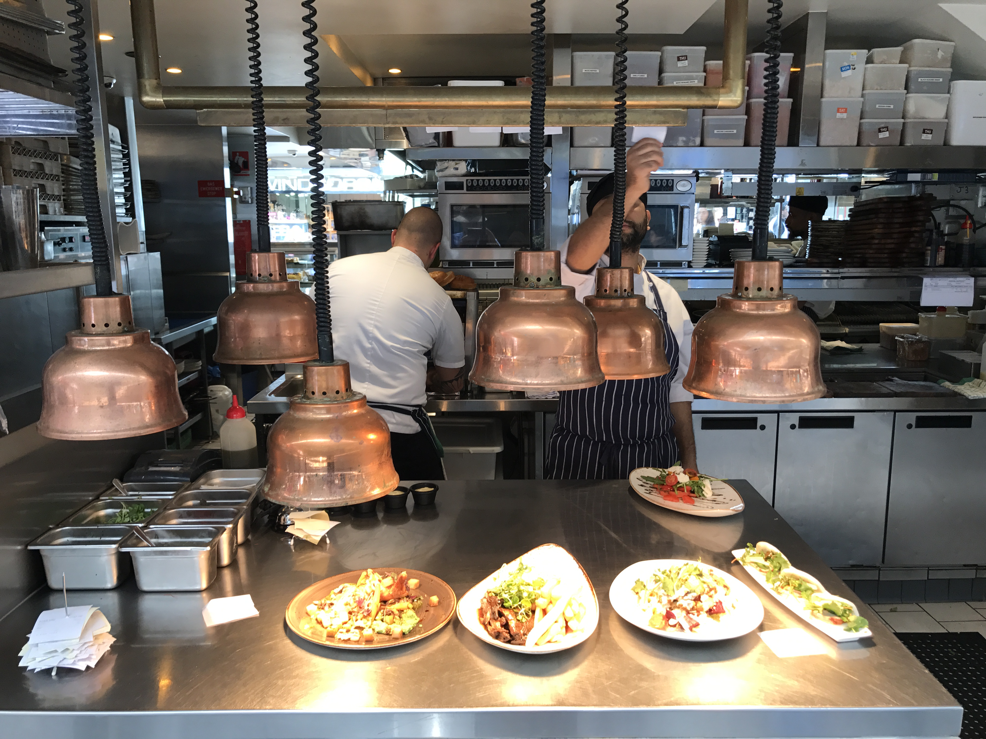 Jimmy's On the Mall kitchen